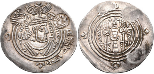 ‘Ubayd Allāh ibn Ziyād. Umayyad governor, AH 54-64 / AD 673-683. AR Drachm (32mm, 4.04 g, 9h). BCRA (Basra) mint. Dated AH 56 (AD 675/6). Crowned Sasanian-style bust right; [bism] allāh.·. in margin; c/m’s: forepart of sēnmurw right, forepart of sēnmurw right above Pahlavi b(?) and ΦPOPO in Baktrian / Fire altar flanked by attendants; star and crescent flanking flames. SICA 1, 49-51; Album 12; for c/m’s: Göbl, Dokumente KM 3, KM 10, and KM 59. Near EF, toned.